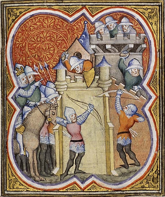 David besieges Jerusalem From Petrus Comestor's "Bible Historiale" (manuscript "Den Haag, MMW, 10 B 23")